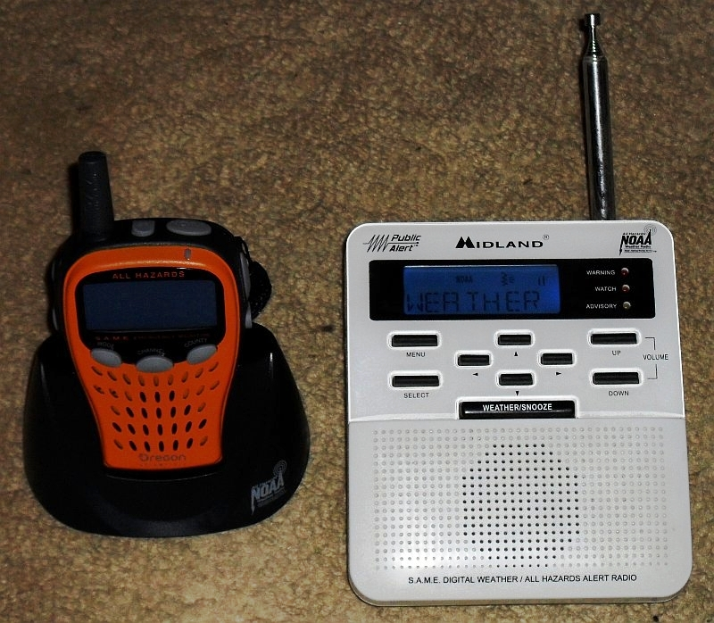 A side-by-side picture featuring both a portable Oregon Scientific and Midland Radio Weather/All-Hazards Radio receivers, which are capable of receiving S.A.M.E. alerts.